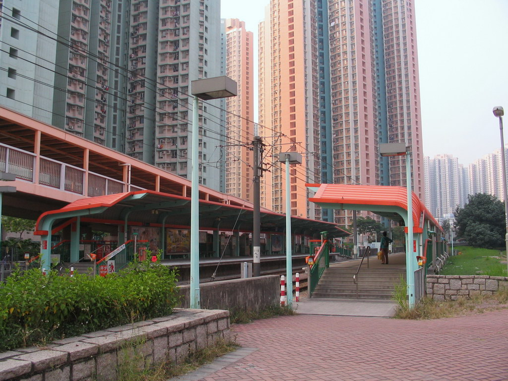 輕鐵 天悅站 Tin Yuet Stop, Light Rail